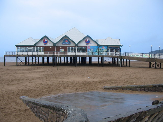 The Sea Life Centre in Weston Super Mare, England.